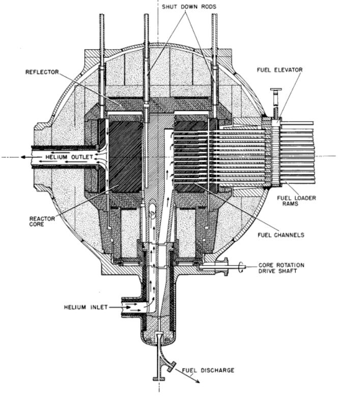 A vertical cross section of the UHTREX reactor core showing the rotating assembly, control rods, helium flow path and fuel loading and discharge system.